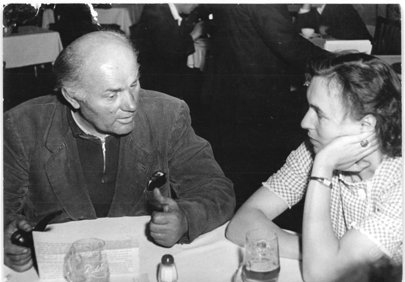 Protest demonstration for André Stil Photo: Köhler, June 19, 1952. Protest demonstration for André Stil. On Thursday, June 19, 1952 at 7:00 p.m., at the Clubhouse for Creative Artists (Klubhaus der Kulturschaffenden), Jägerstrasse 2, Berlin W8, the German Writers Union (Deutsche Schriftstellerverband) held a demonstration for the incarcerated French writer and Freedom Prize holder, André Stil.